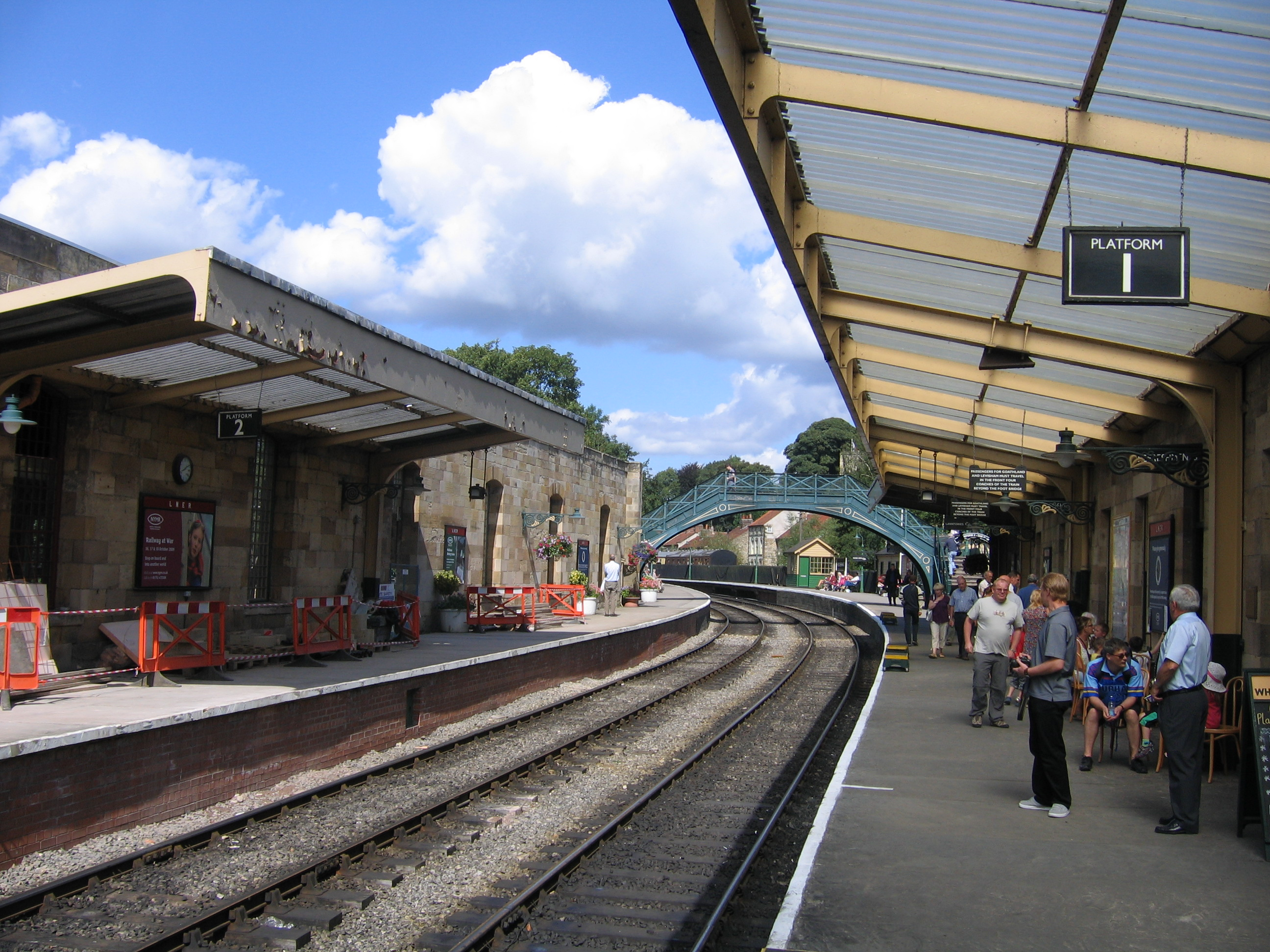 Pickering Station